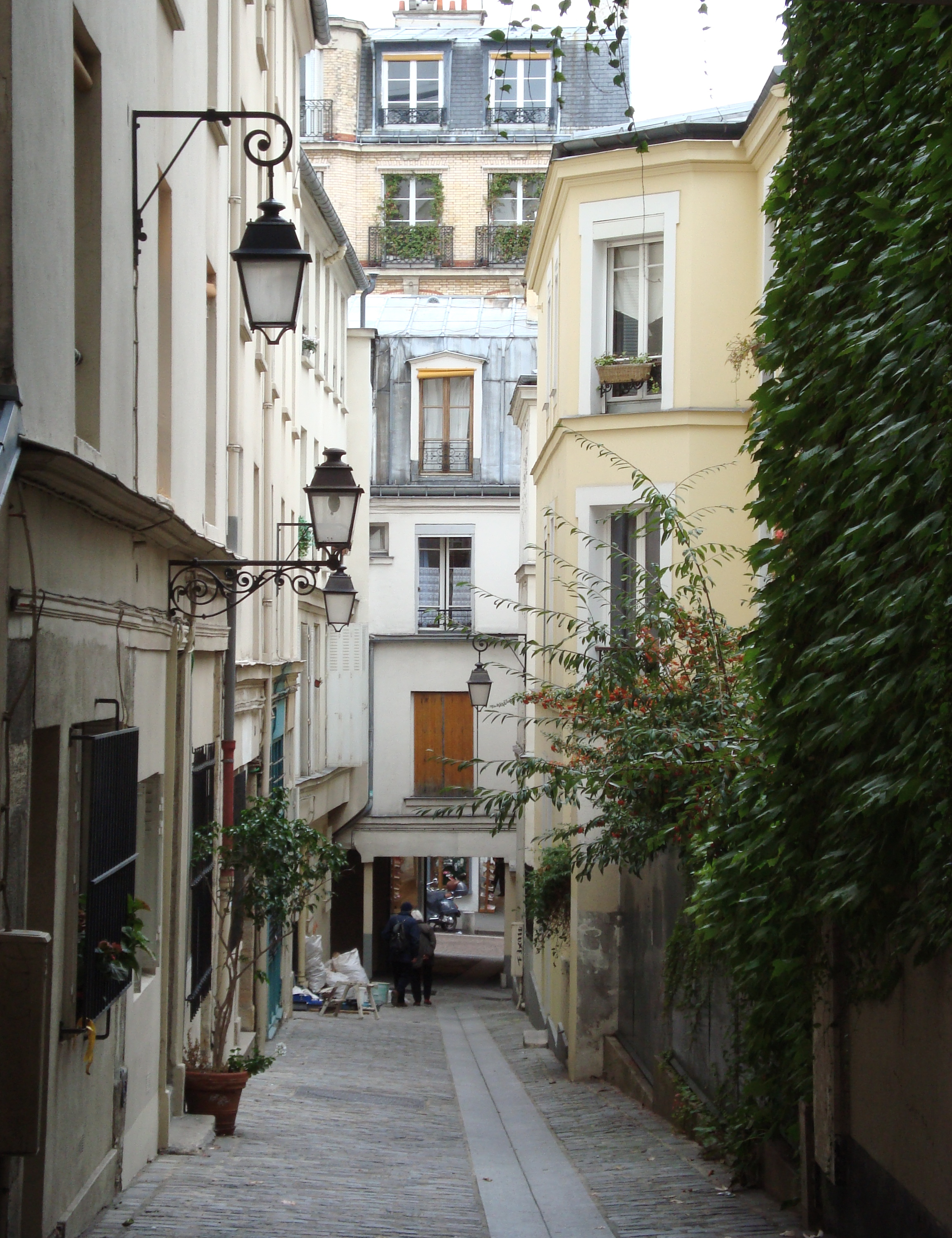 Passage des Postes in Paris 5th arrondissement